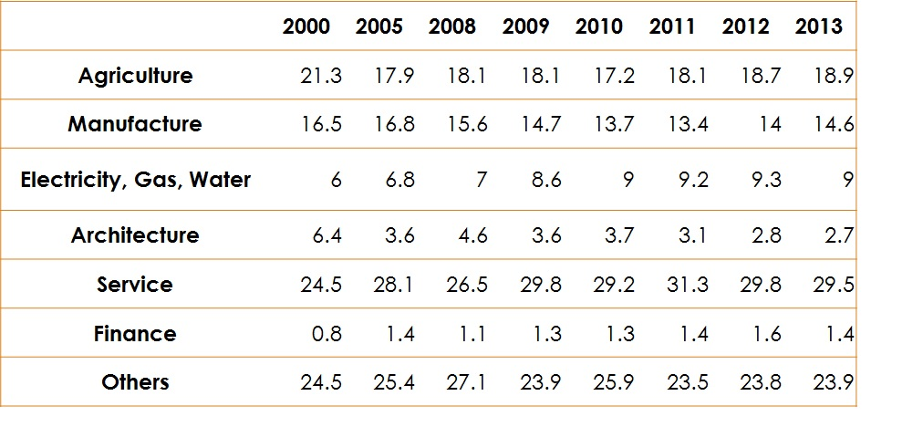 Industry of FDI in Russian Federation